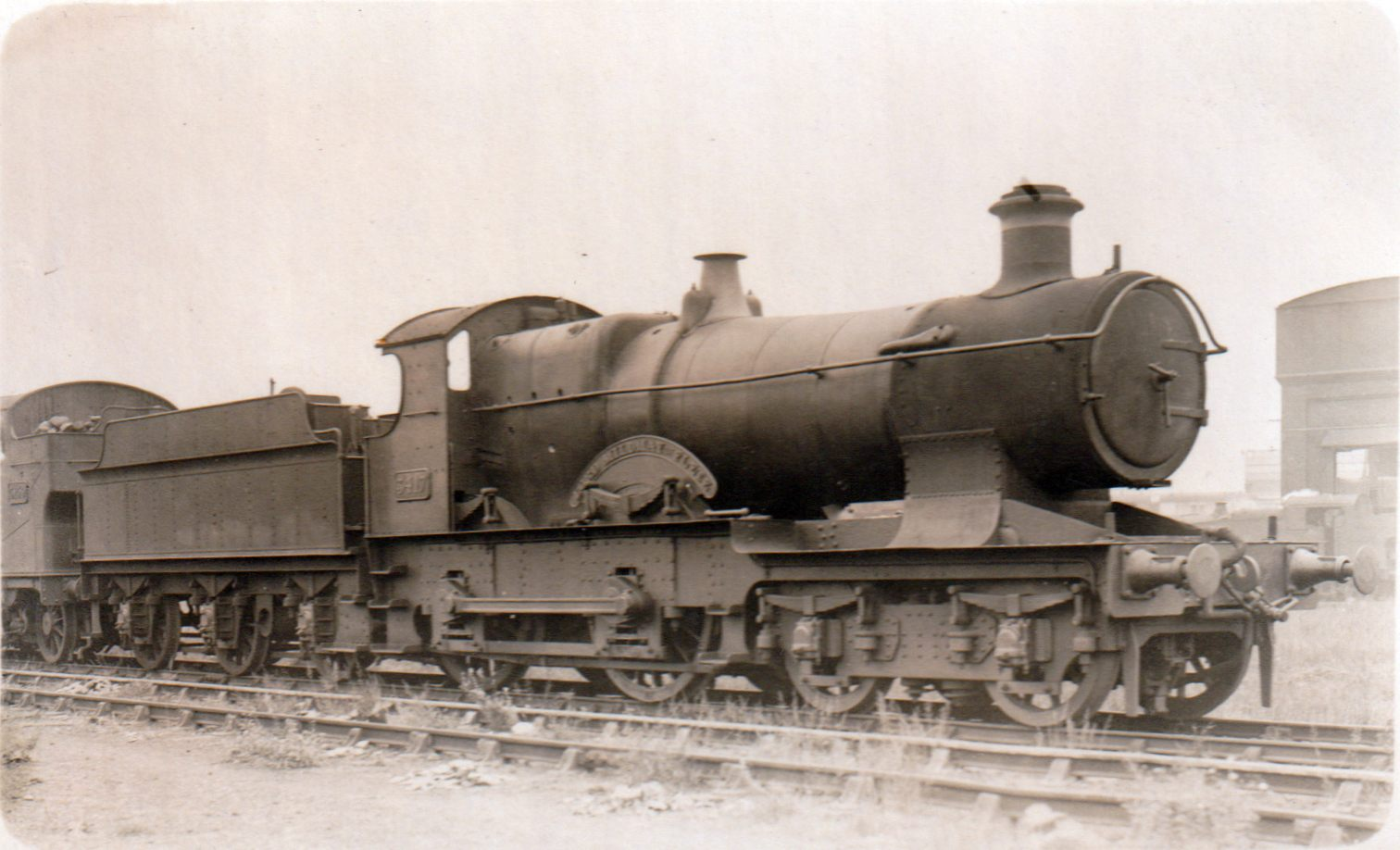 GWR 3300 straight-framed 'Bulldog' class 3417 Lord Mildmay of Flete (renamed in 1923). Note the non-original tapered boiler.